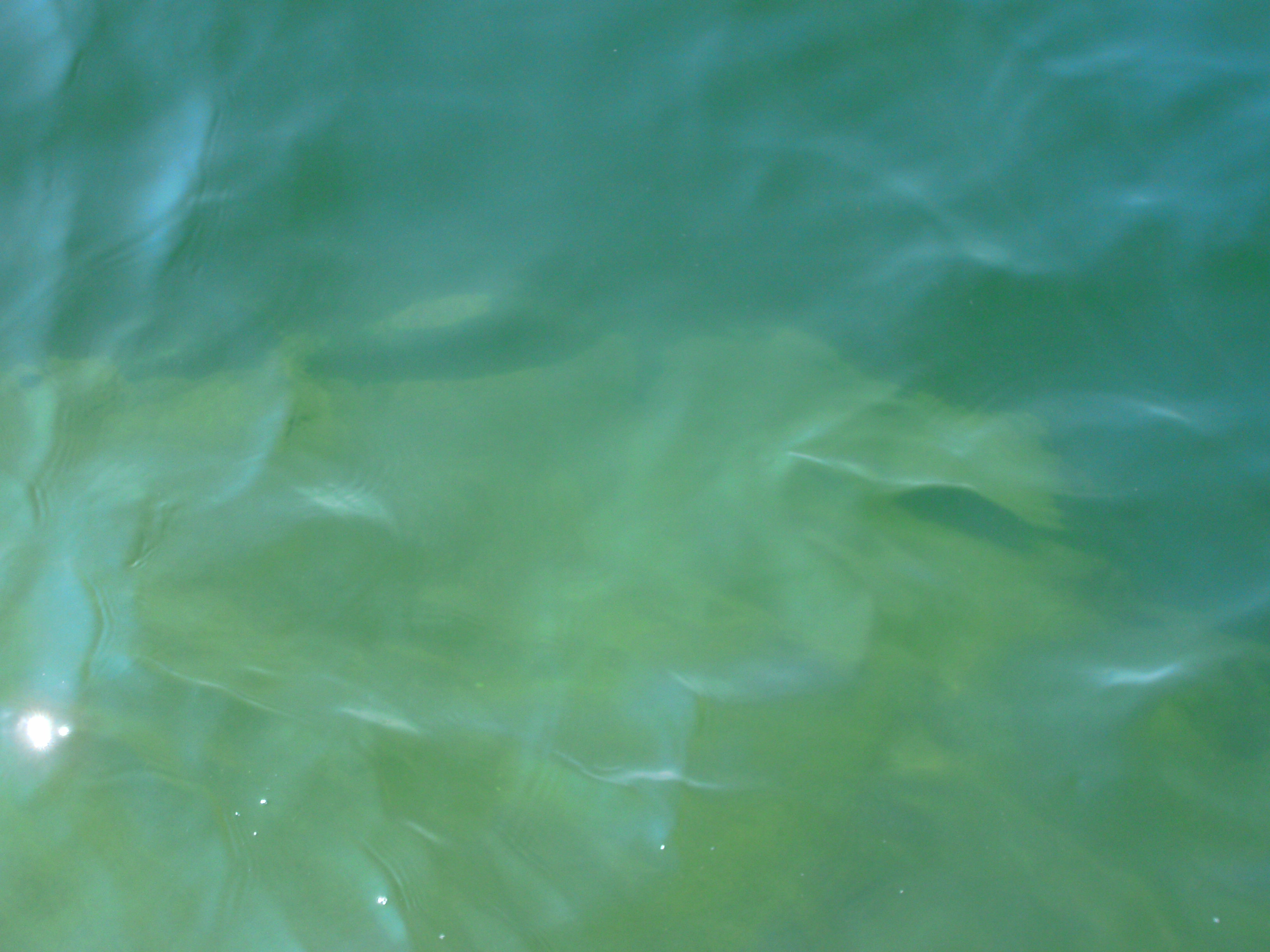 Seepromenade (Promenade at Lake Constance) in Meersburg. Western edge. Shallow water is green, deep water is blue.